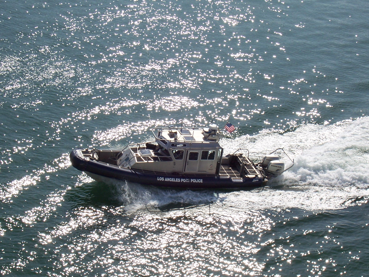 Picture taken in the Port of Los Angeles.